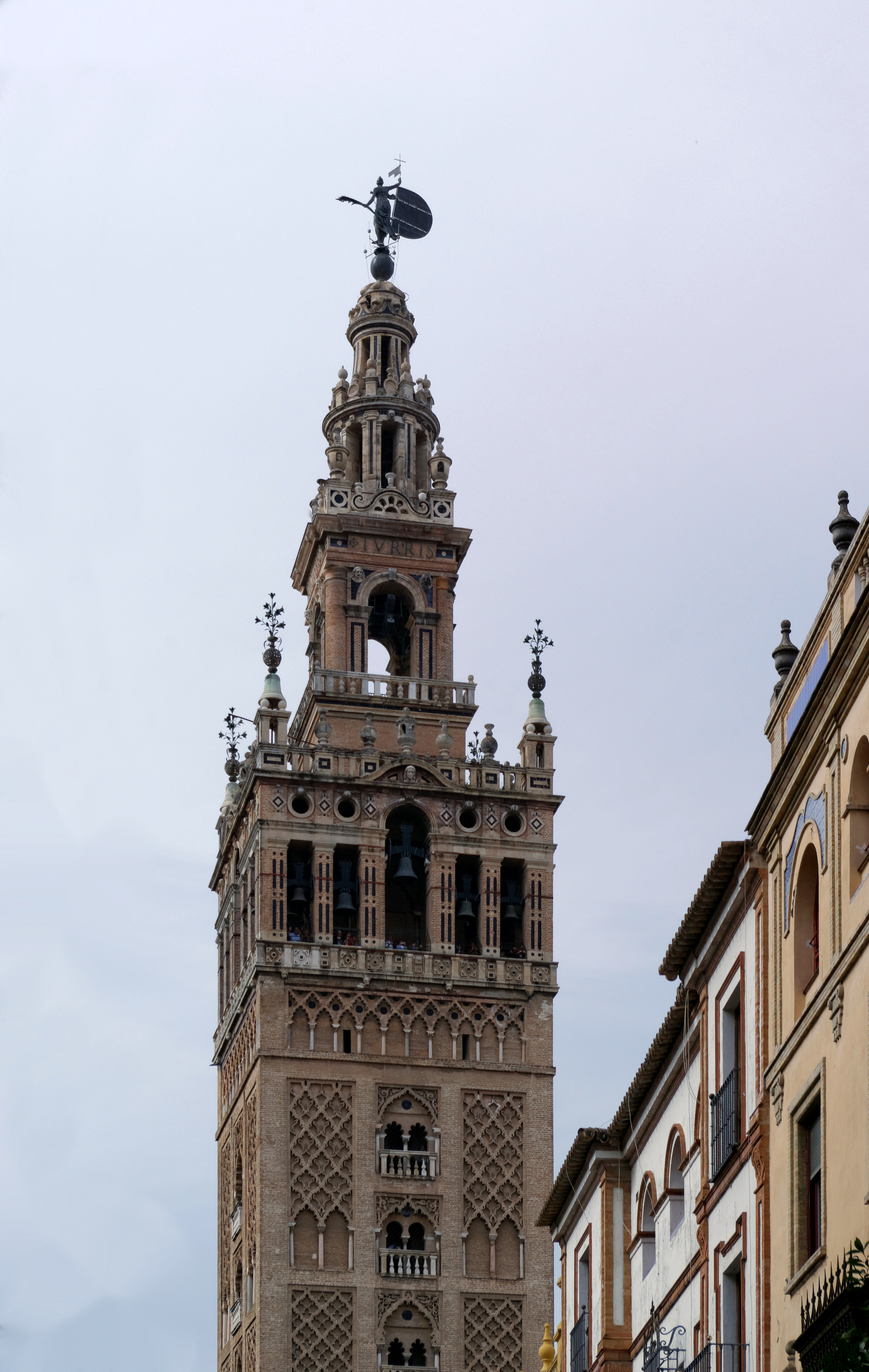 Spain, Sevilla, Giralda from Calle Mateos Gago